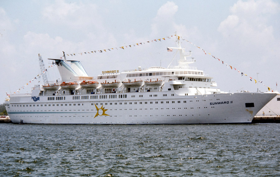 The cruise ship Sunward II moored in Miami's harbor in December 1980.